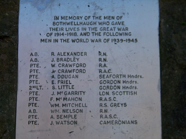 The other plaque in the Memorial Garden In memory of those who gave up their lives in two World Wars